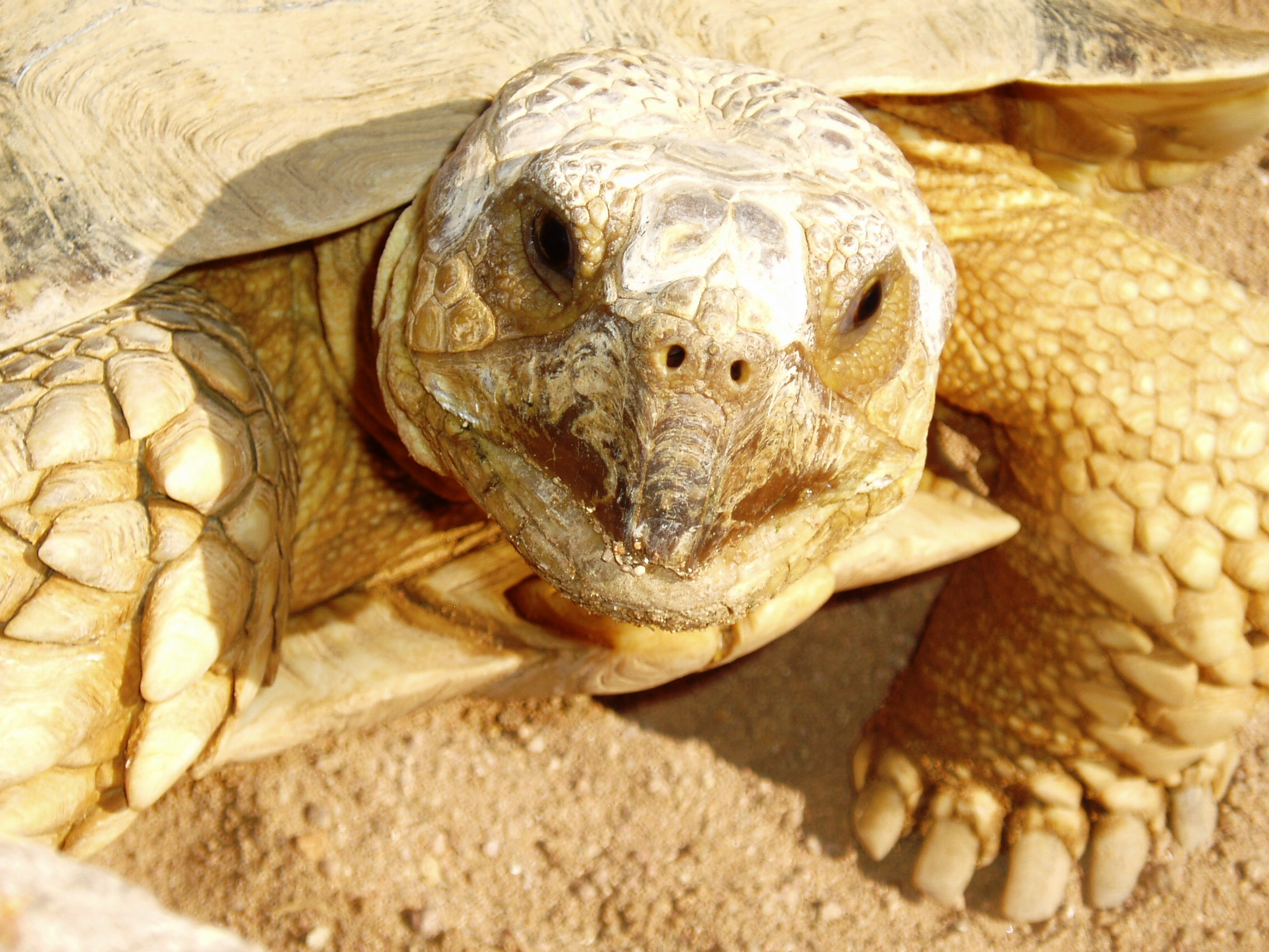 This big fella is a Tortoise; an African Sulcata – also known as African Spurred Tortoise (not to be confused with a "spur thighed tortoise"). Bradley Wolff, D.C.